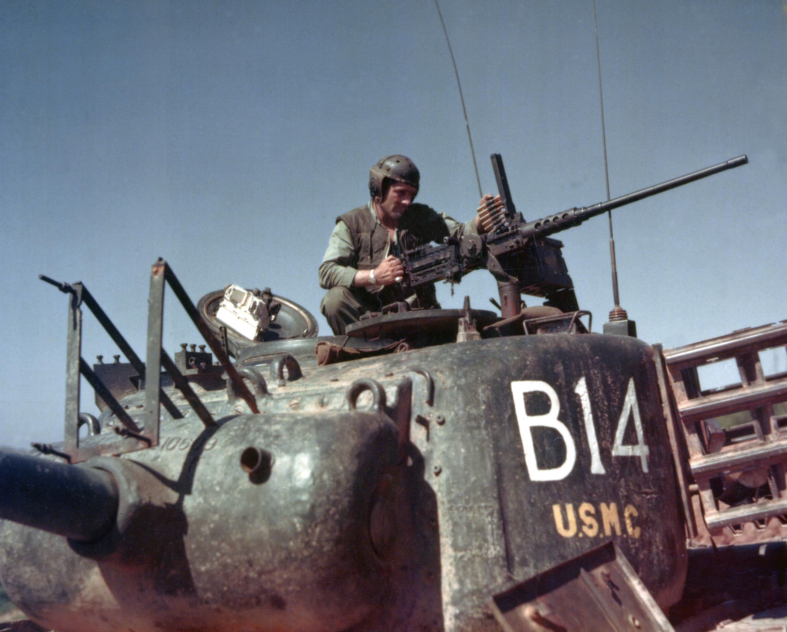 A Marine of the 1st Tank Battalion, 1st Marine Division, loads a 50 cal. machine gun prior to moving into the firing slot, a key position in the defense of Boulder City after the Communists had taken outposts Berlin and East Berlin. This was the final battle before the Korean truce talks. ID #127-GK-235-A174618